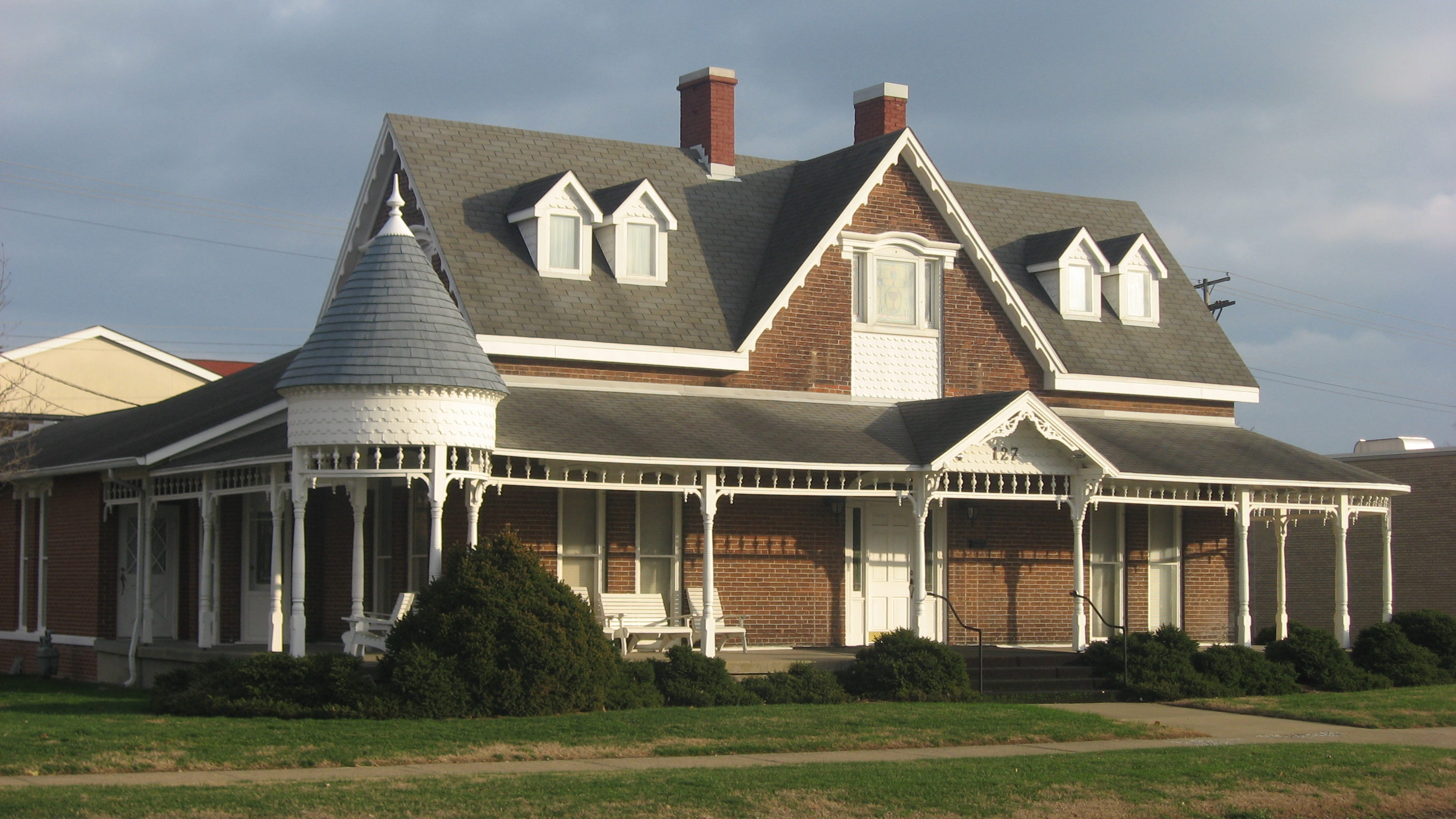 Front and northern side of the Blackstone House, located at 127 S. Main Street in Martinsville, Indiana, United States. Built in 1860, it is listed on the National Register of Historic Places together with the adjacent former Martinsville Telephone Company Building.